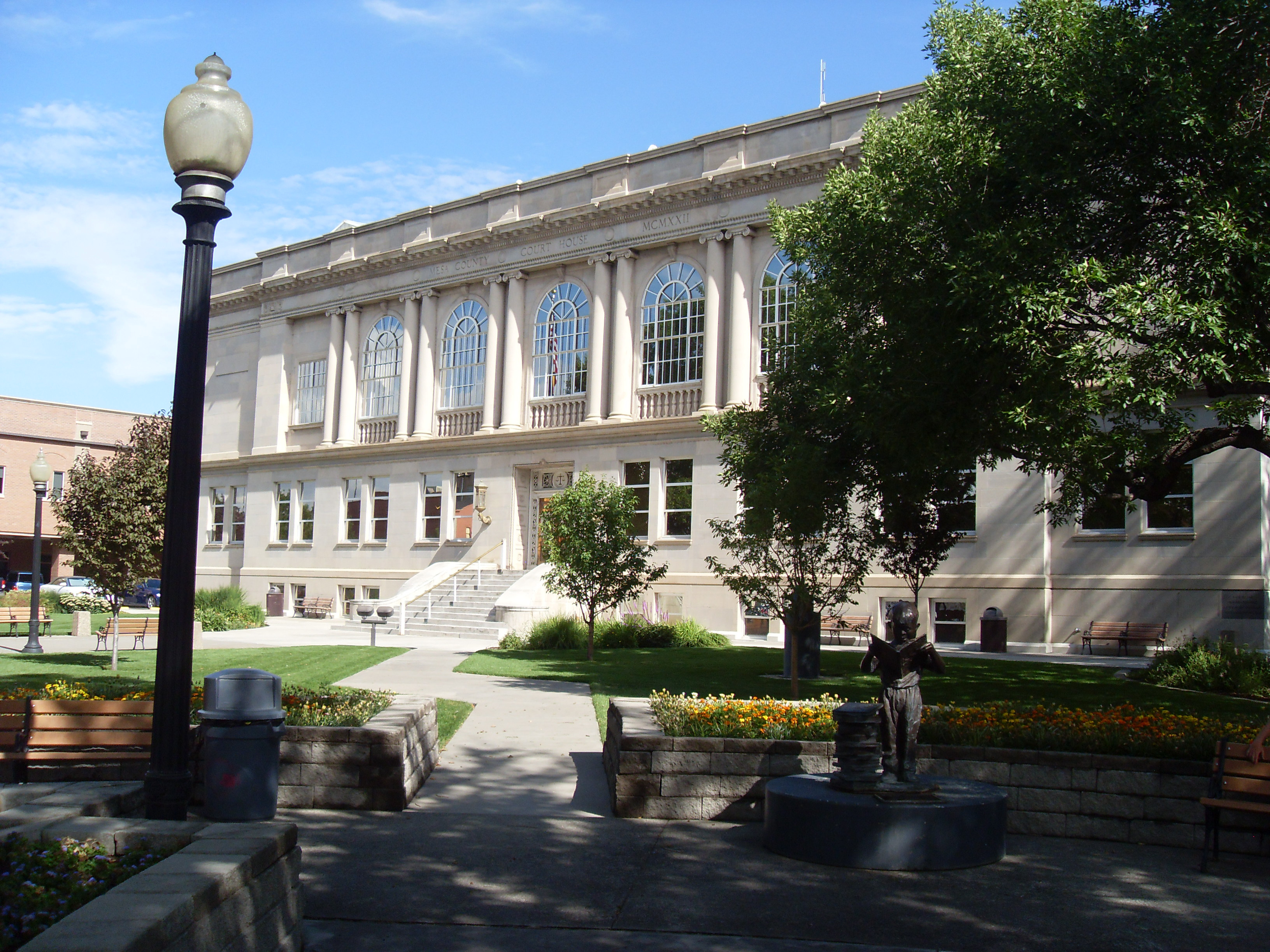 Mesa County Court House in Grand Junction